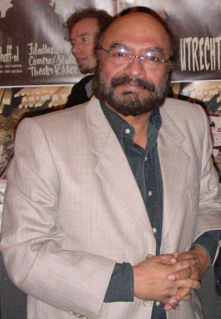 Govind Nihalani, noted Indian film director.